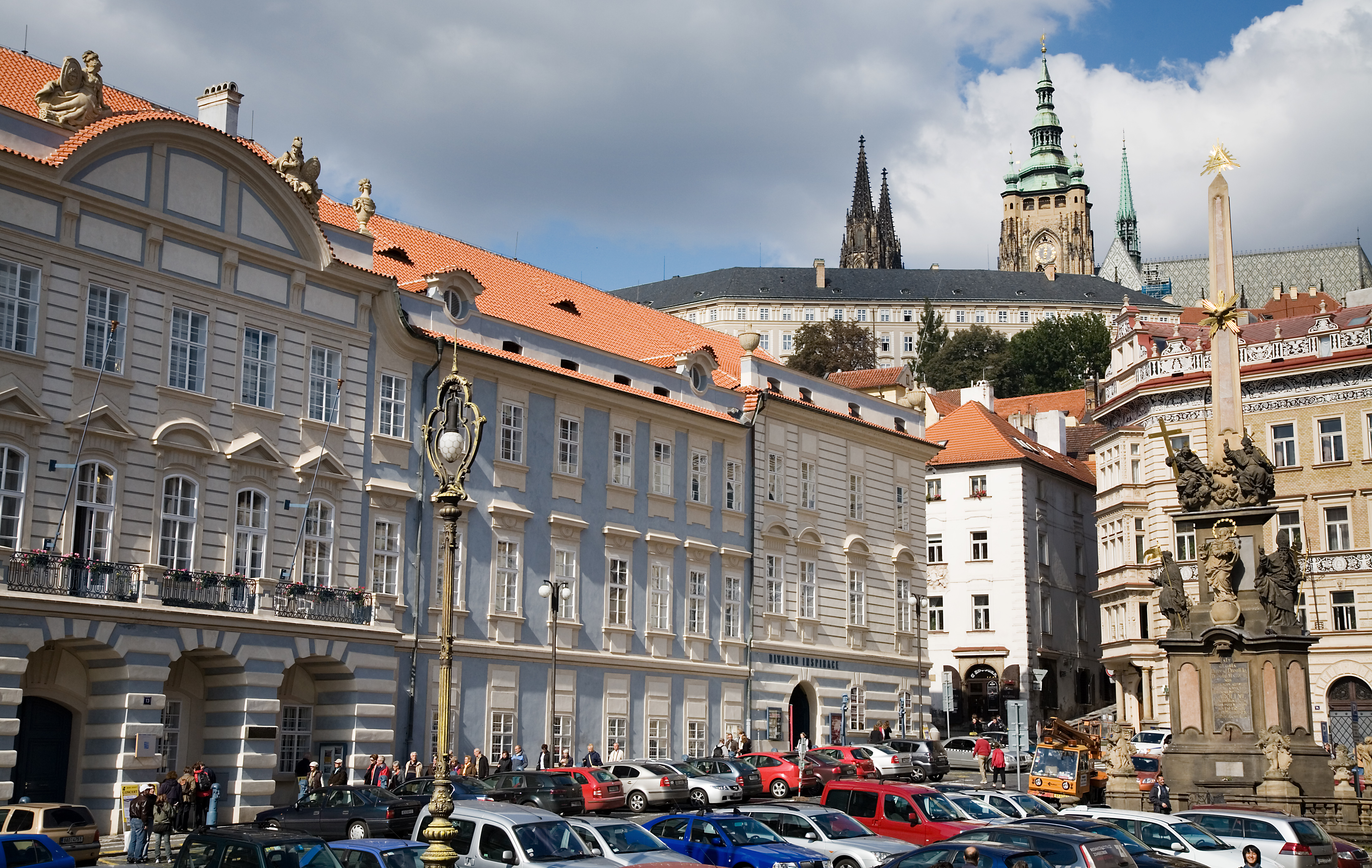 Malostranske Namesti, Prague